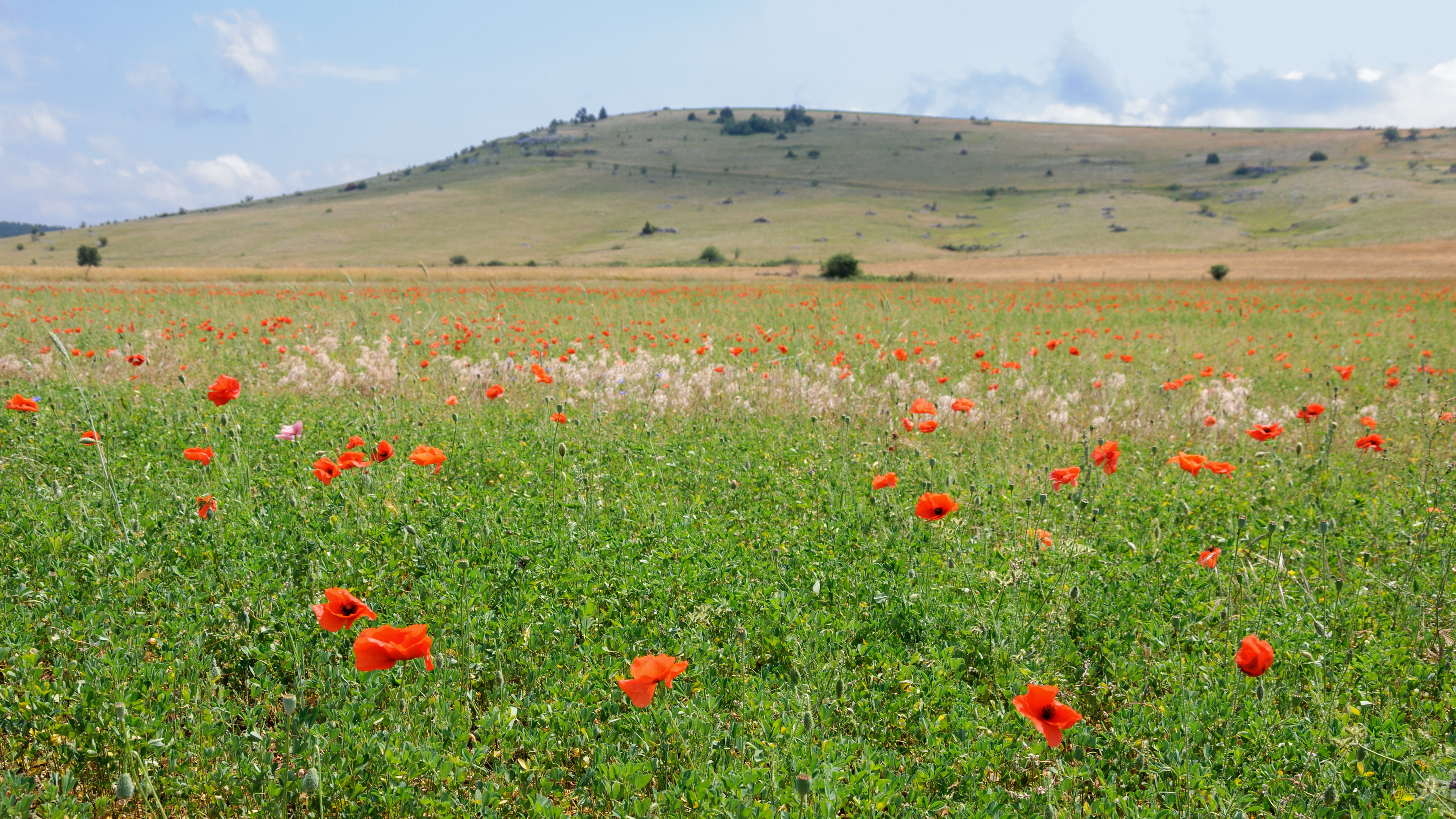 Alfalfa field with field poppies in Lozère, France.